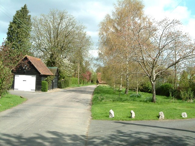 Meadle. The hamlet of Meadle on a Spring day. Meadle is something of a backwater being on a no-through-road off a country lane.